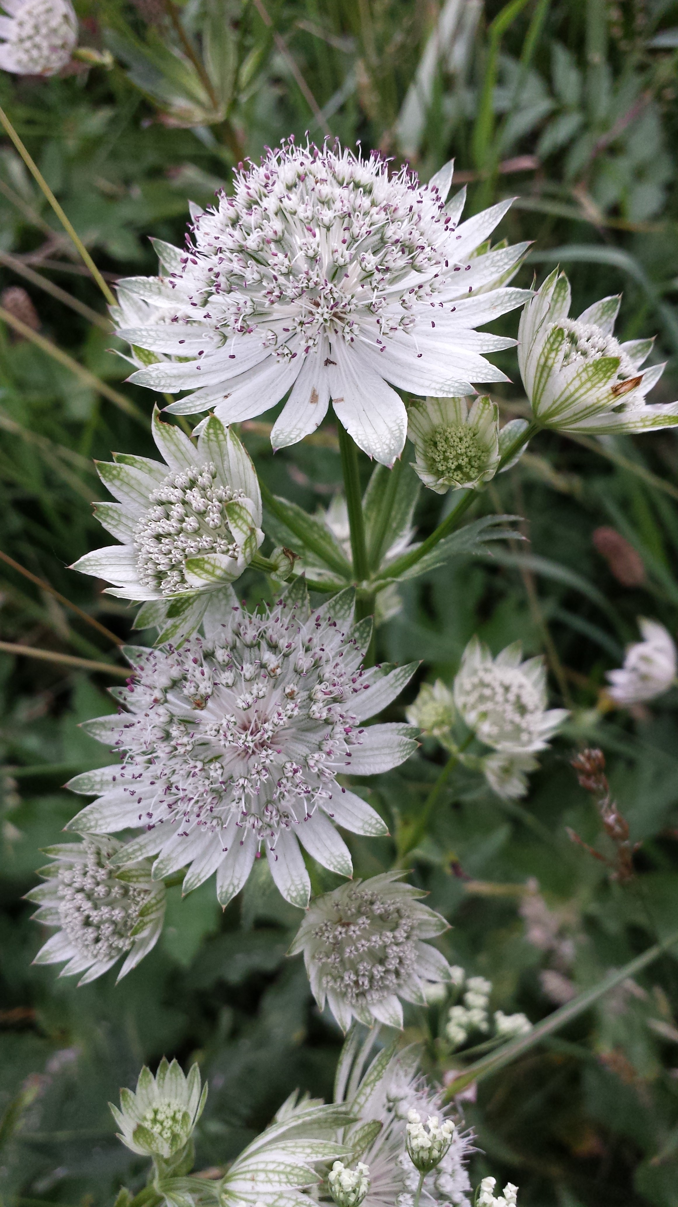 Taxon: Astrantia major var. involucrata (sensu Fischer et al. EfÖLS 2008, det. M. A. Fischer 2013-06-22) Location: Pürgschachenmoos near Ardning, district Liezen, Styria, Austria - ca. 630 m a.s.l. Habitat: wet meadow